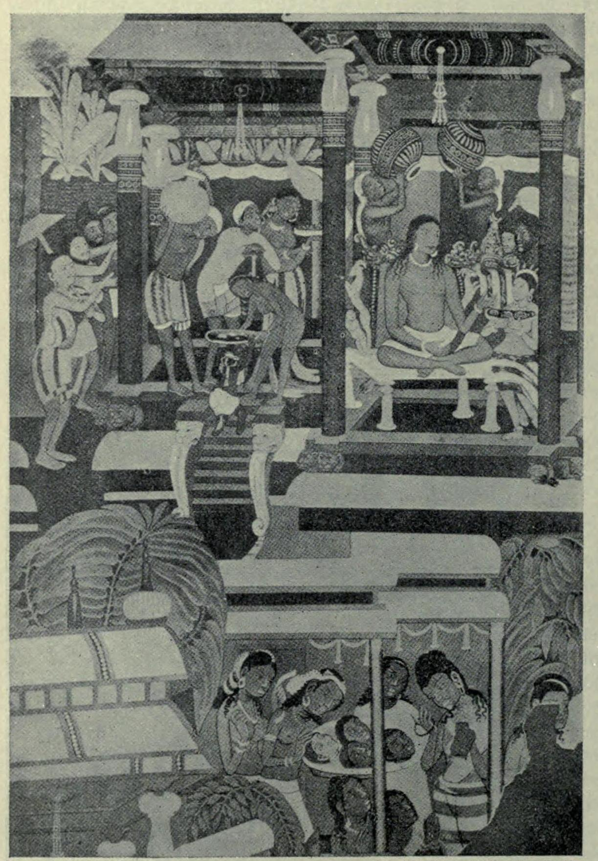 Hutchinson's story of the nations, containing the Egyptians, the Chinese, India, the Babylonian nation, the Hittites, the Assyrians, the Phoenicians and the Carthaginians, the Phrygians, the Lydians, and other nations of Asia Minor.